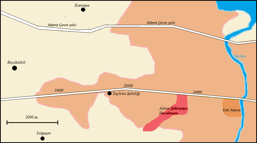 Map of Adana with location of Yeşiloba Şehitliği .